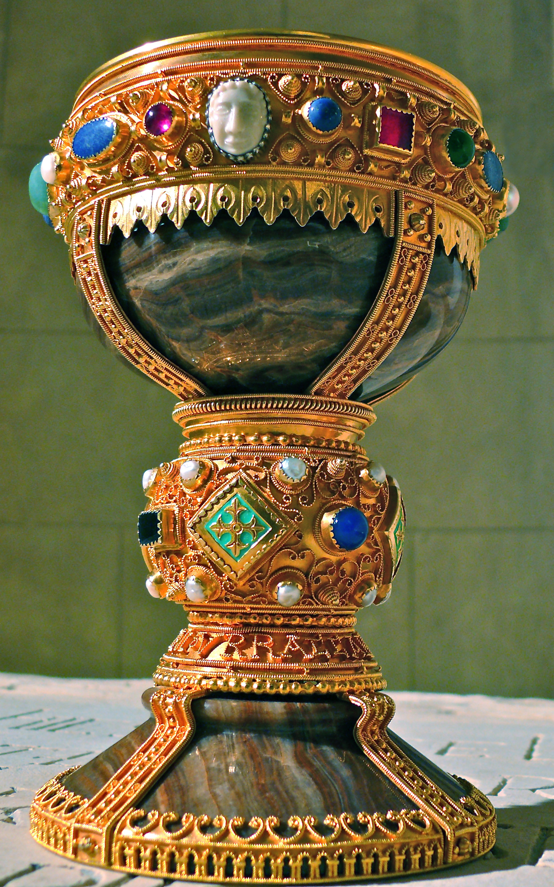 The chalice of Doña Urraca is a piece of Romanesque jewelry donated by the queen Urraca of Zamora (1033-1101), daughter of the king Fernando 1st of León and Castile. It goes back to the second half of the 12th century. Currently is kept in the museum of the Collegiate-Church of San Isidoro de León (Spain). Replica made on the occasion of the exhibition RAICES : EL LEGADO DE UN REINO-LEÓN (910-1230)